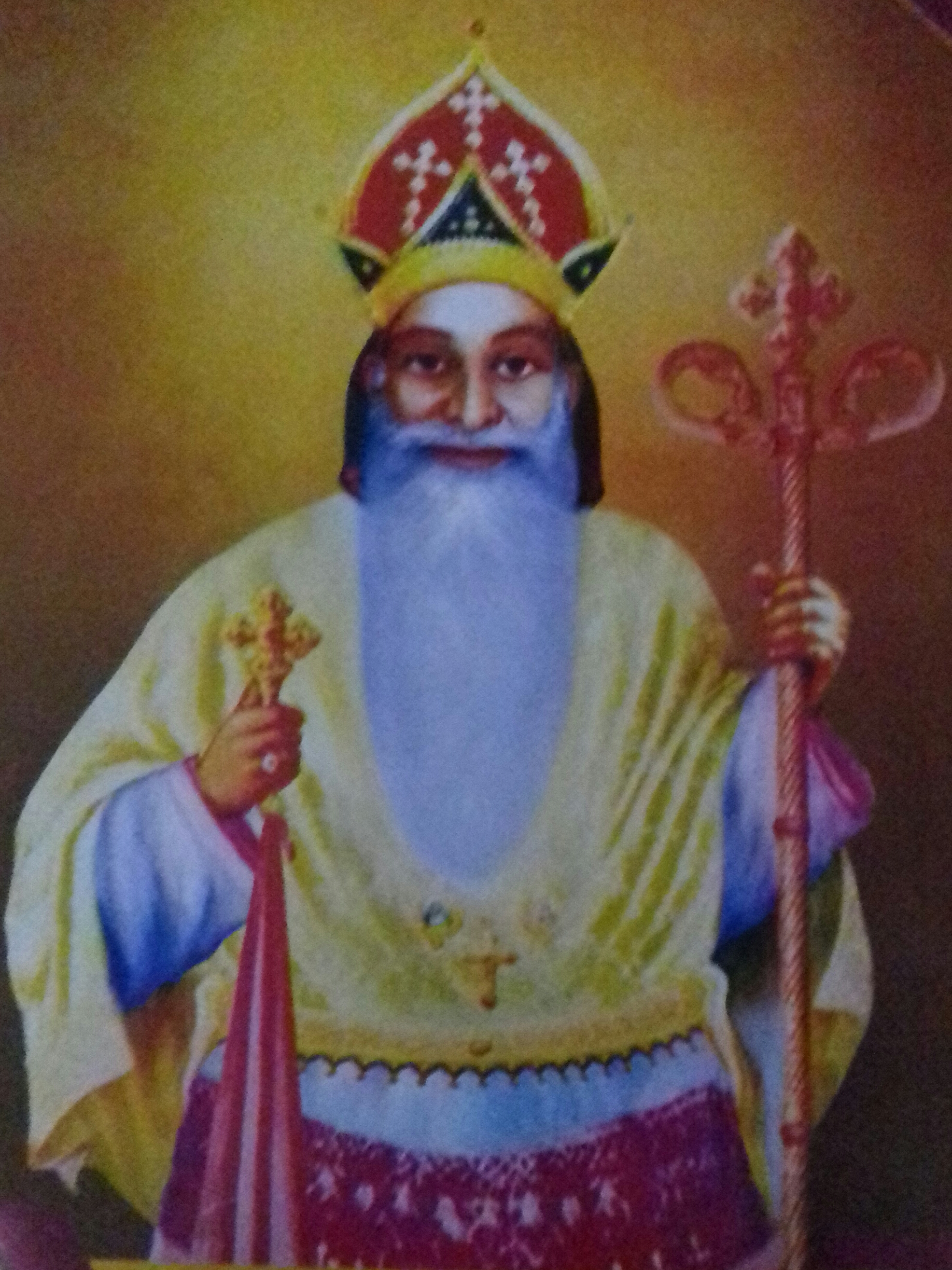 Picture of Marthoma III, Malnkara Metropolitan